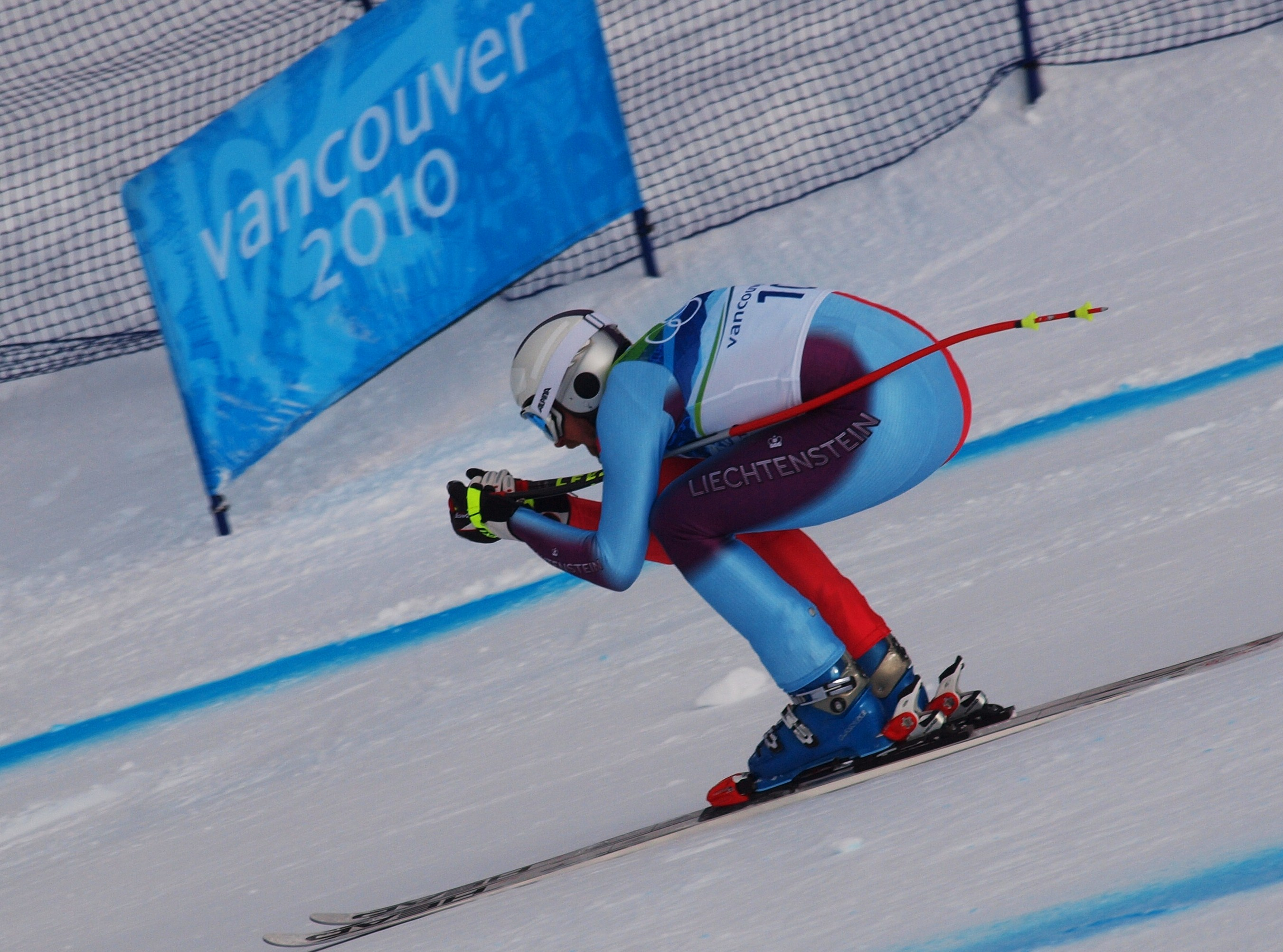 Marco Büchel at the 2010 Winter Olympic downhill.